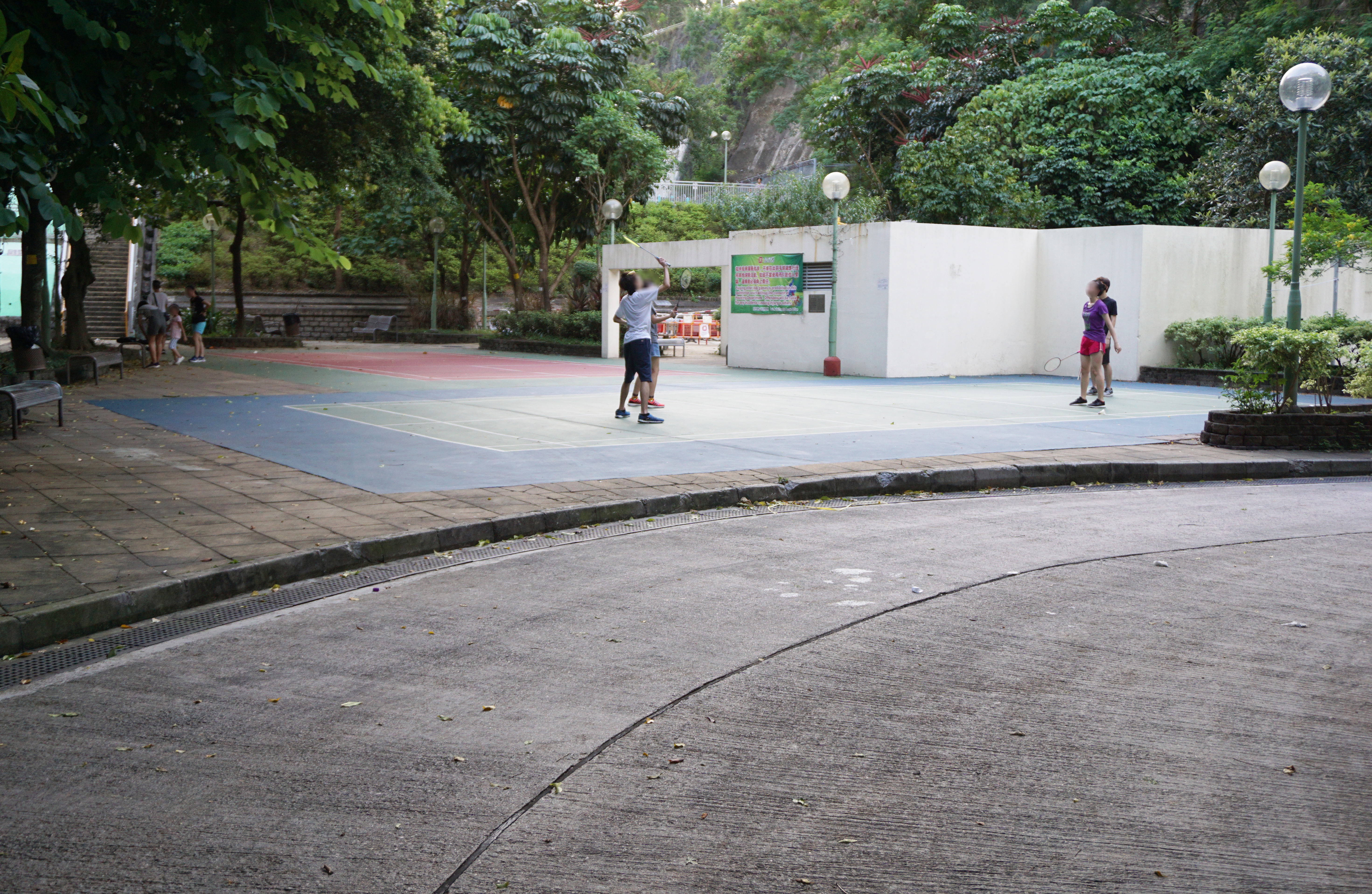 Lei Muk Shue Estate in Wo Yi Hop, Hong Kong.